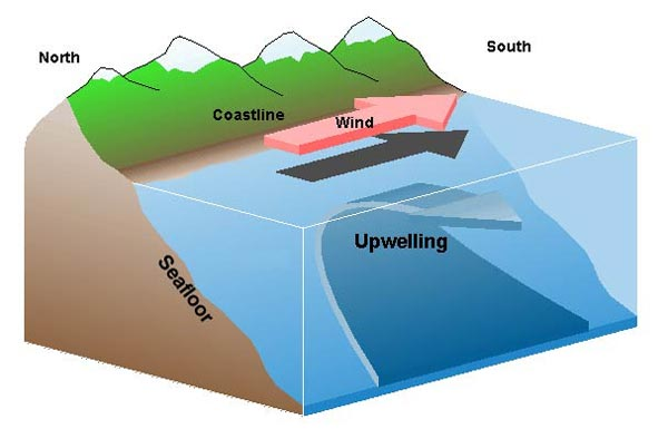 Upwelling